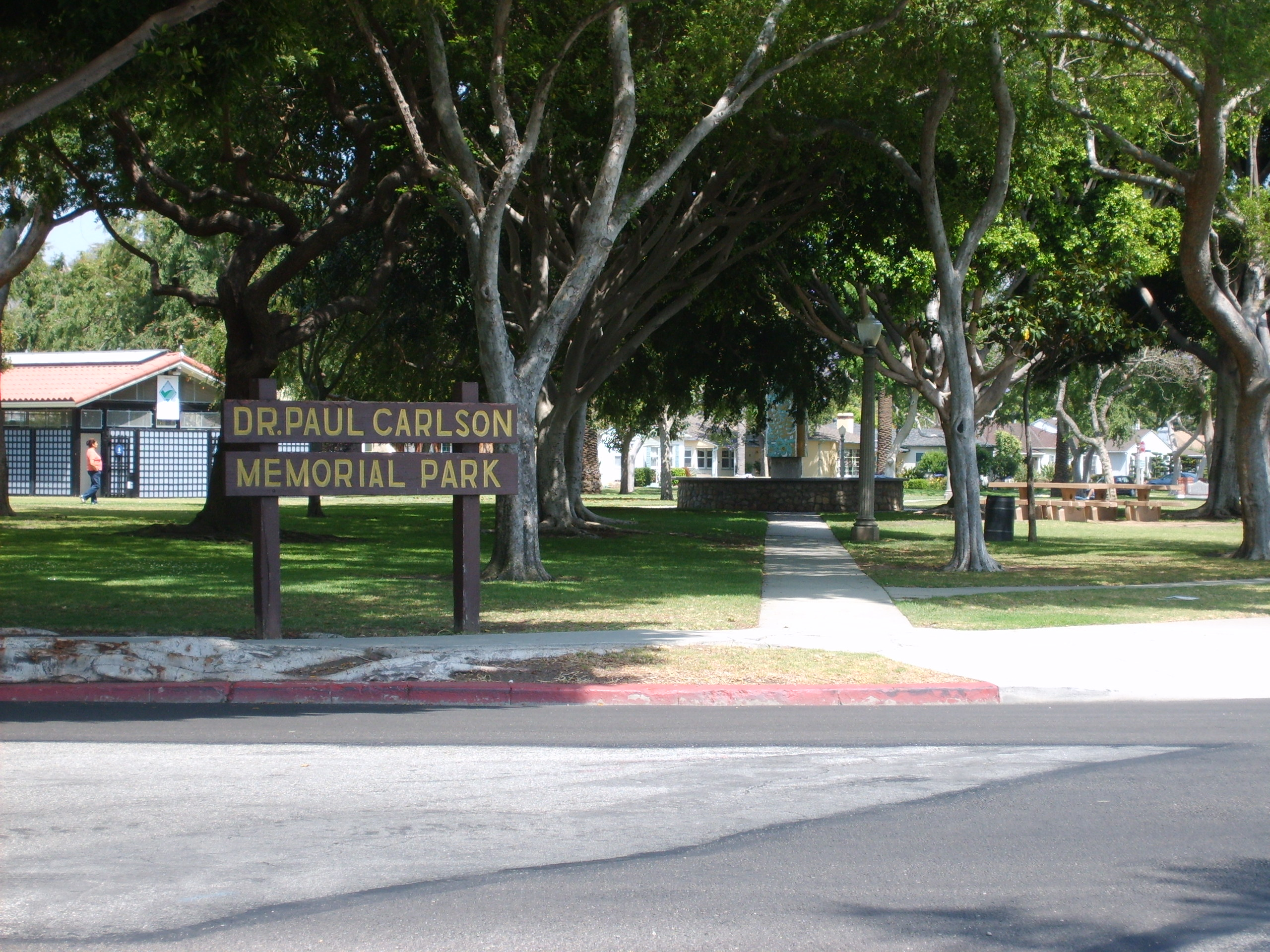 A picture of Carlson Park taken from the corner of Le Bourget Avenue and Braddock Drive on the afternoon of June 11, 2007. Culver City, California.